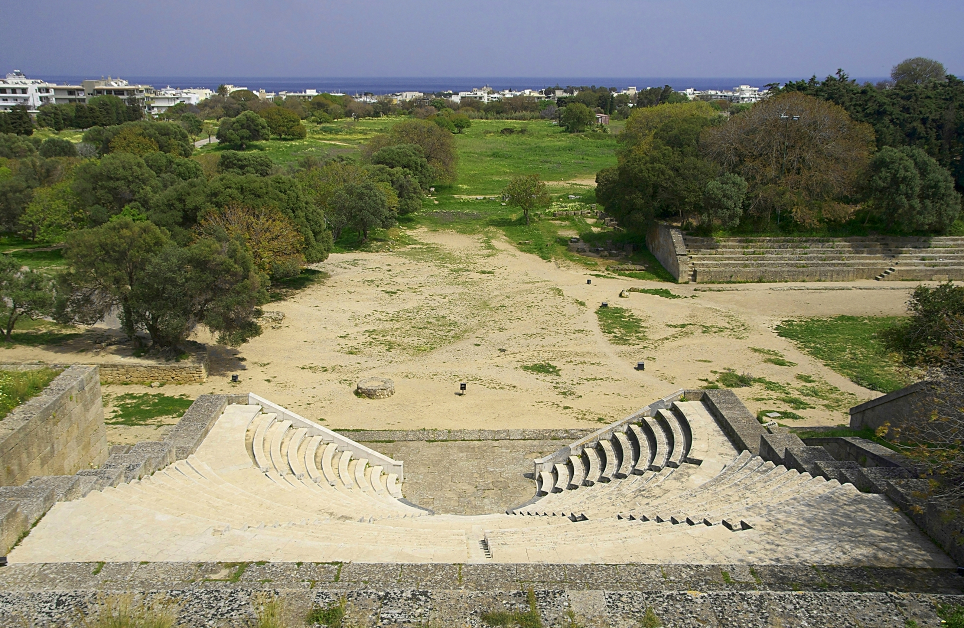 The restored theatre at Acropolis of Rhodes, Greece.